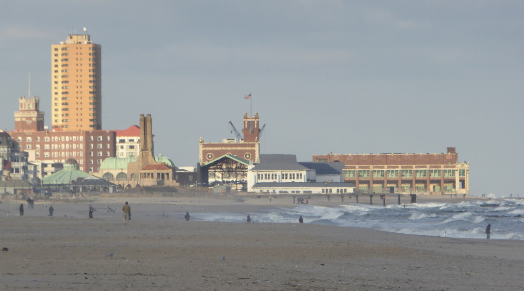 Asbury Park, NJ Skyline v2 LHCollins 2015